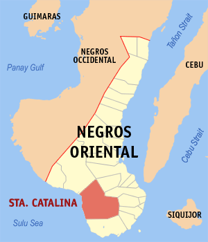 Map of Negros Oriental showing the location of Santa Catalina